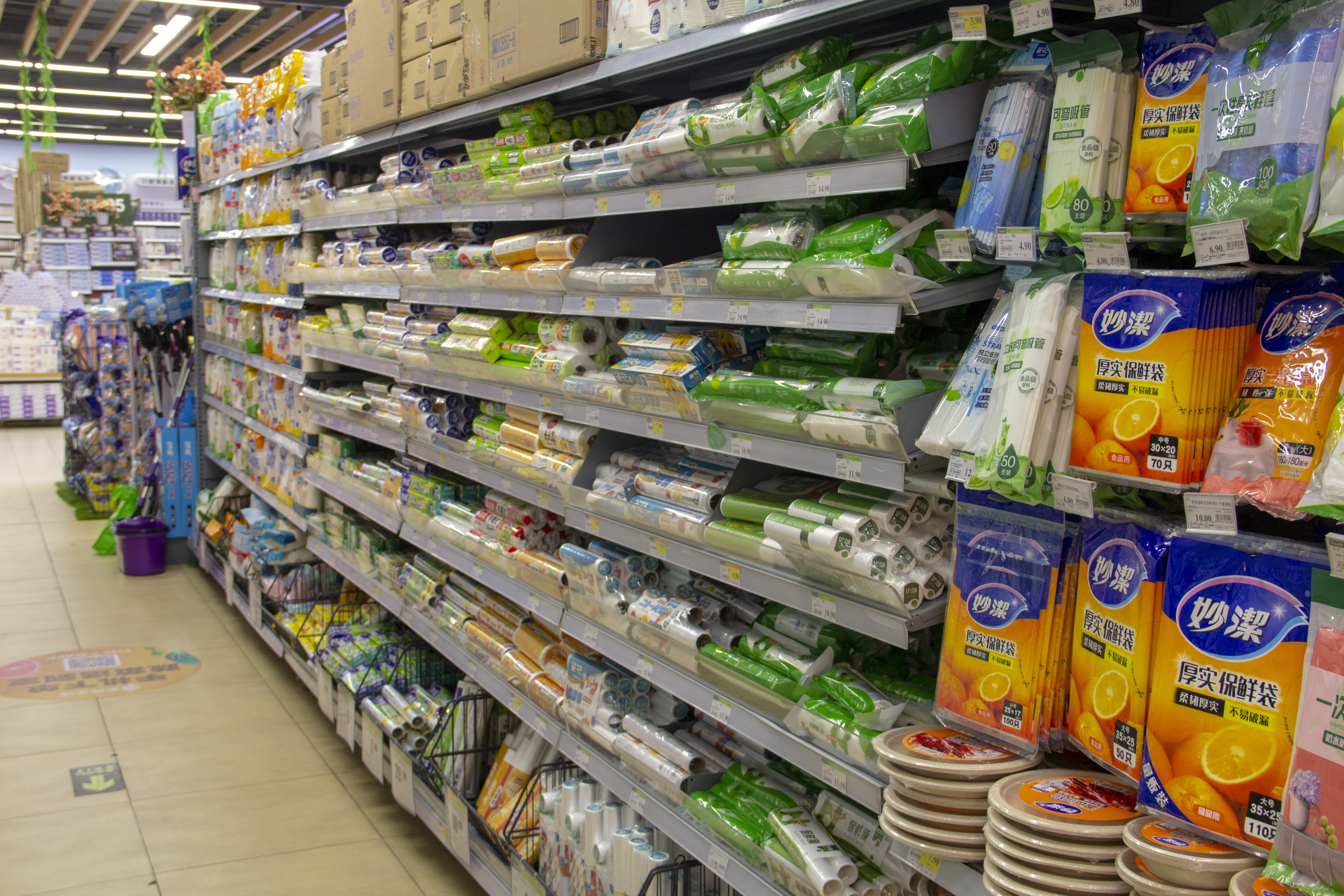 Cling film on a shelf